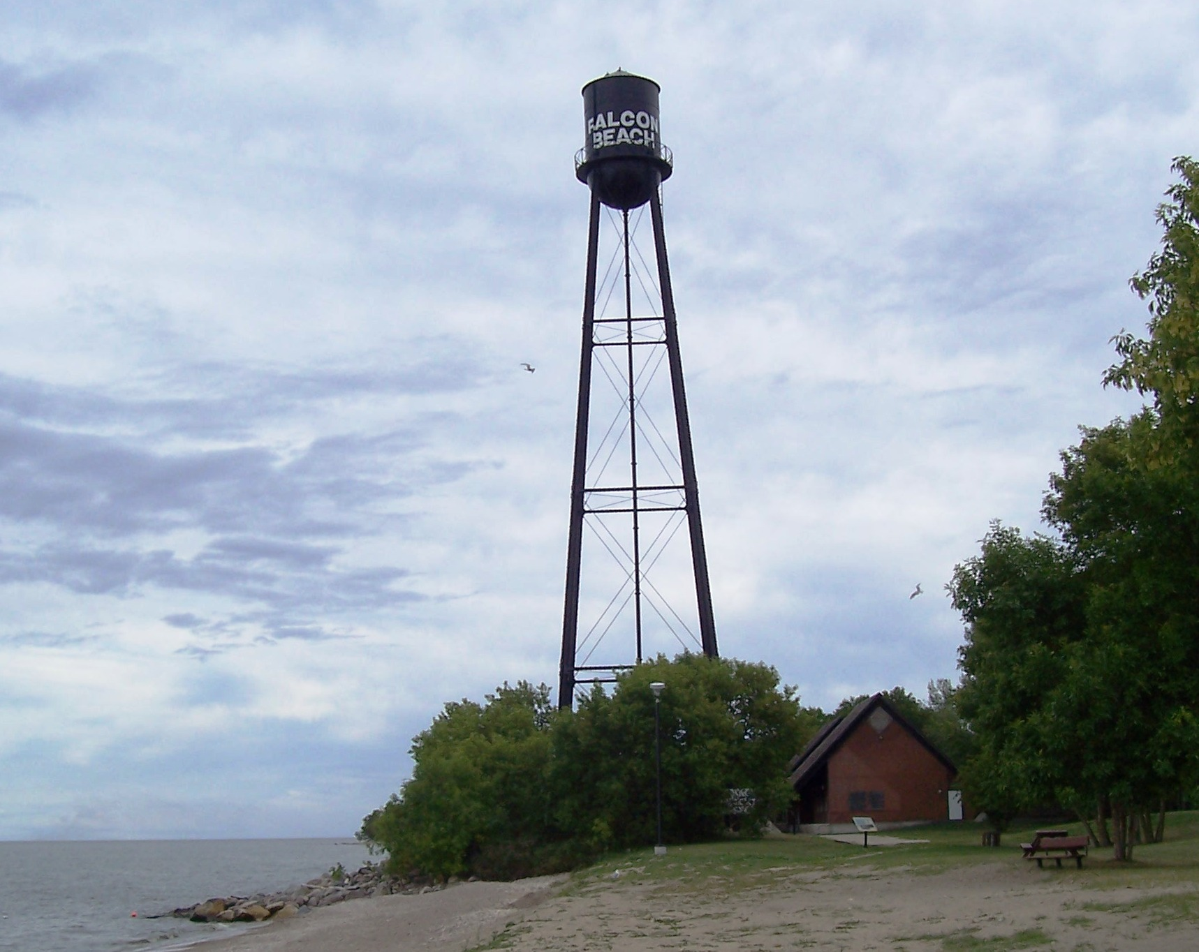 Water tower in Winnipeg Beach, Manitoba, Canada